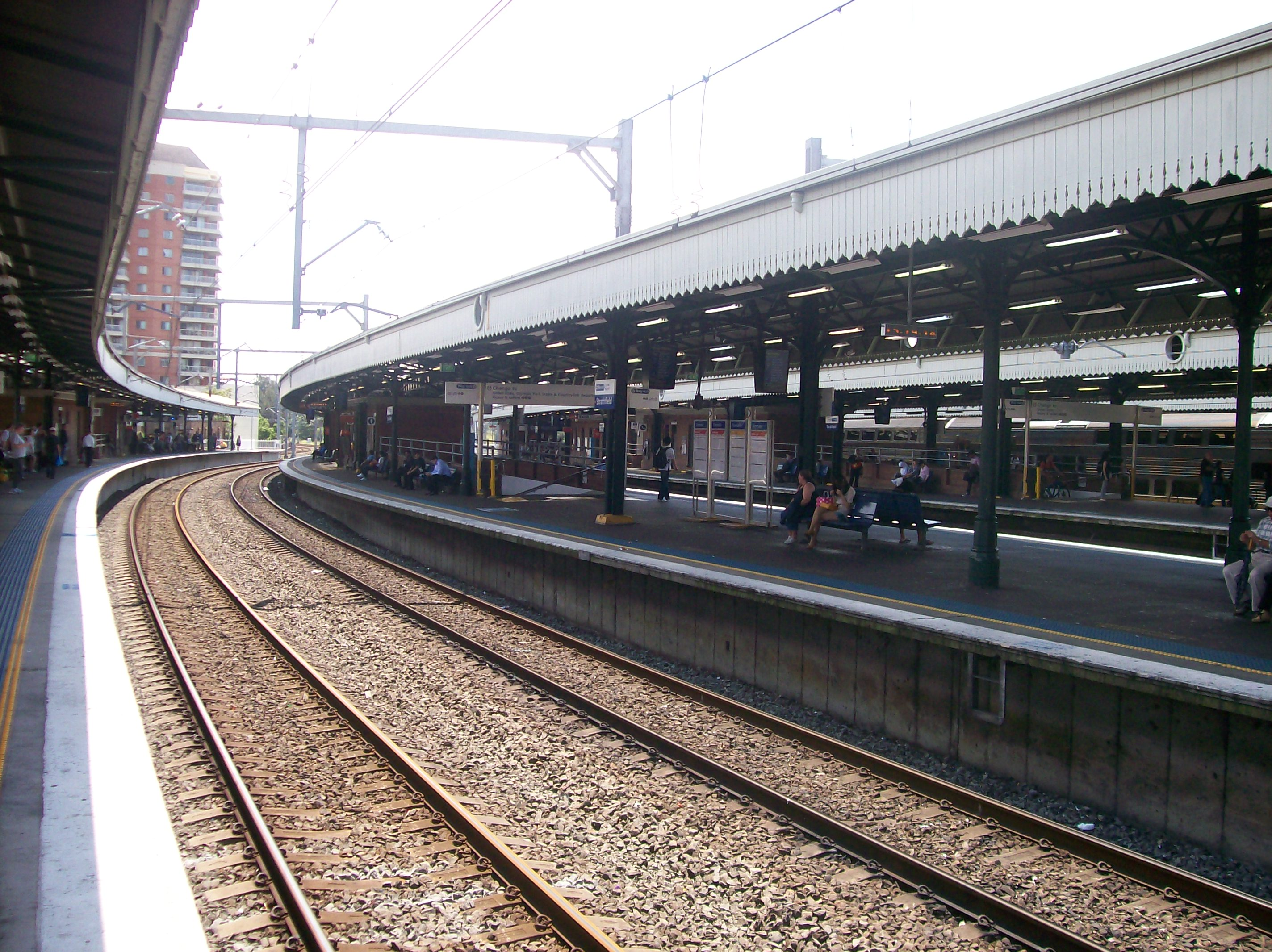 Strathfield railway station